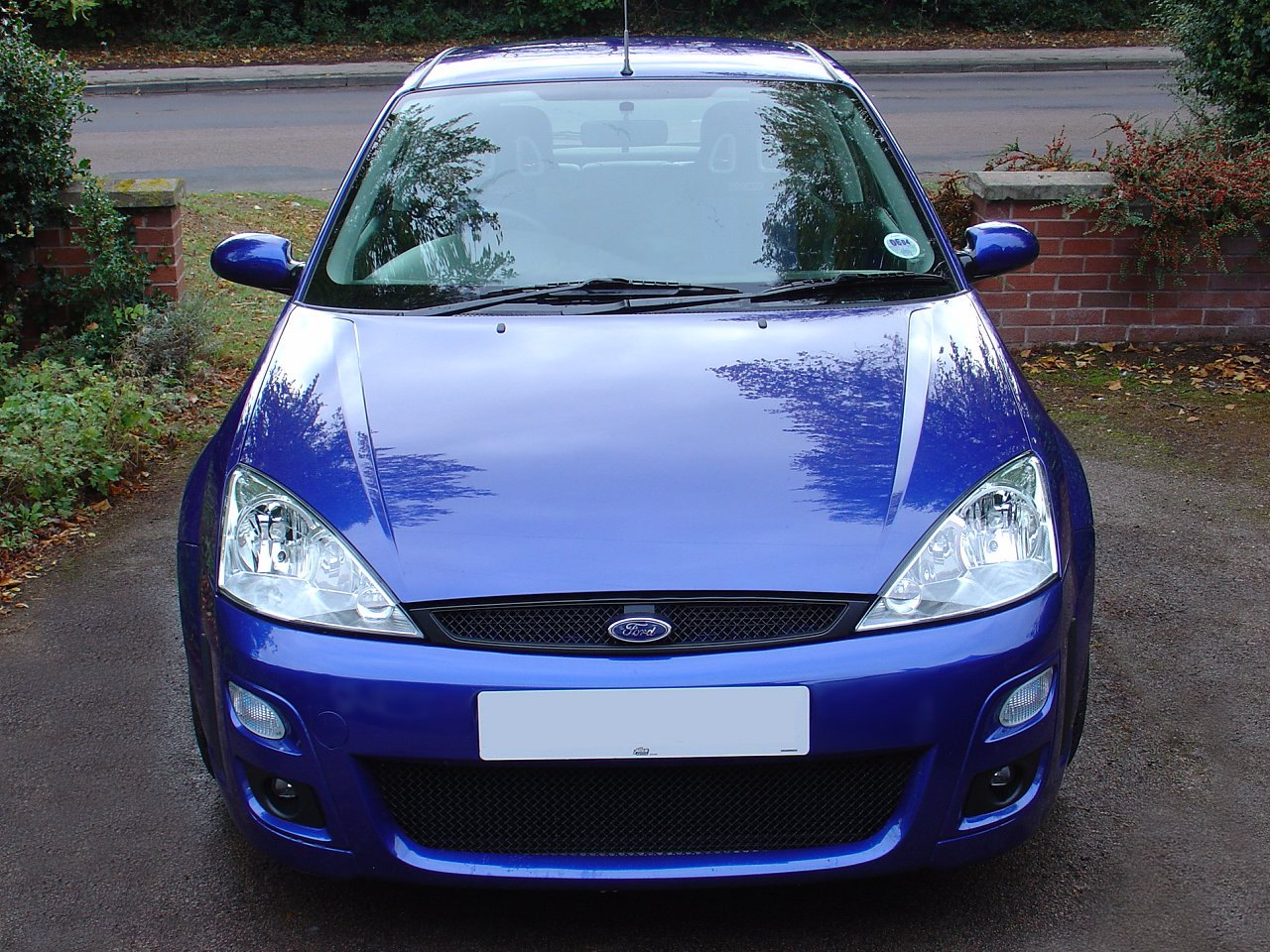 A photo of a Ford Focus RS